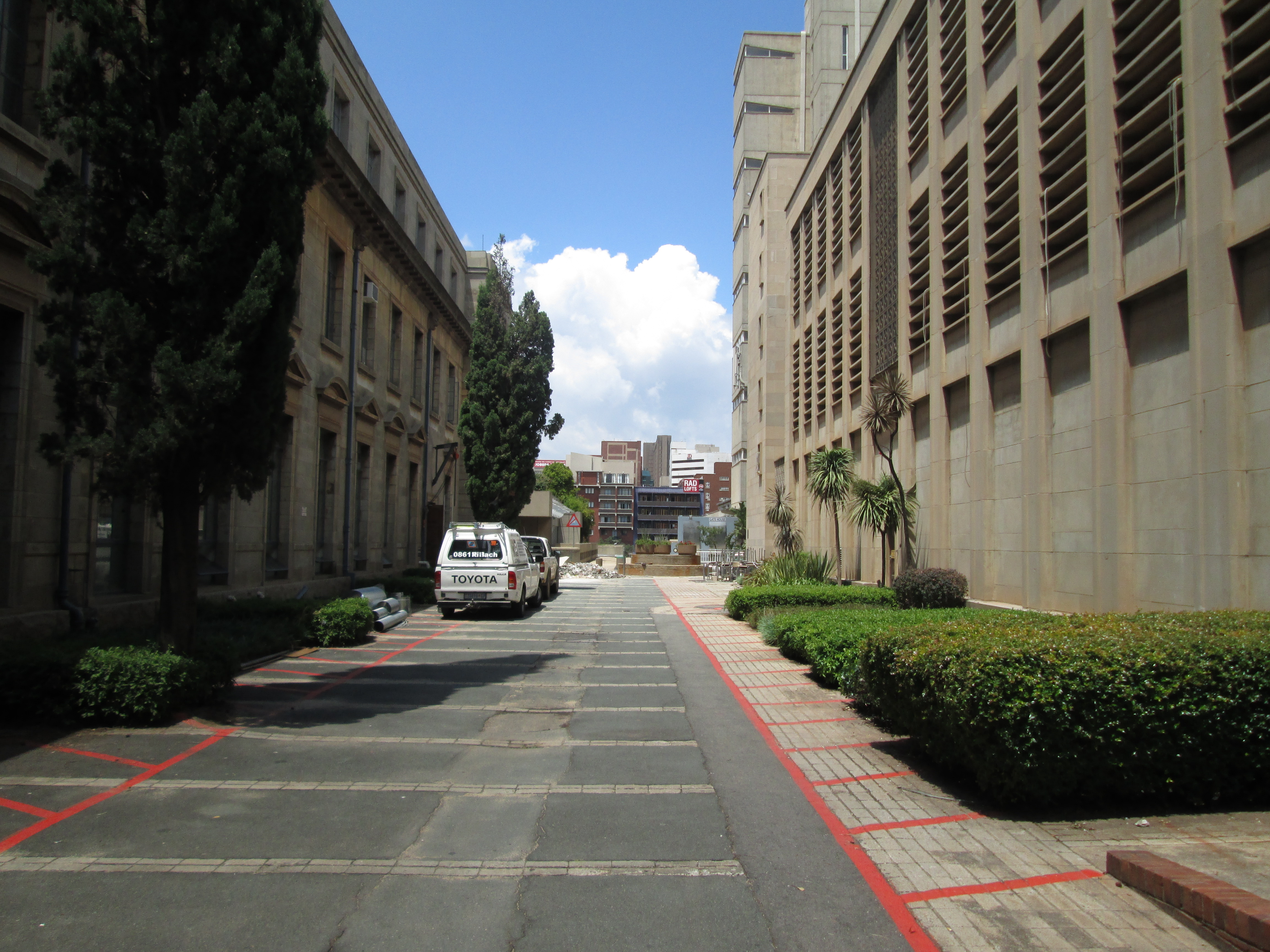 On the East Campus of the University of the Witwatersrand, Johannesburg, facing east away from Central Block toward the pathway between the neoclassical North-West Engineering Building (left) and the brutalist Physics Building (right).